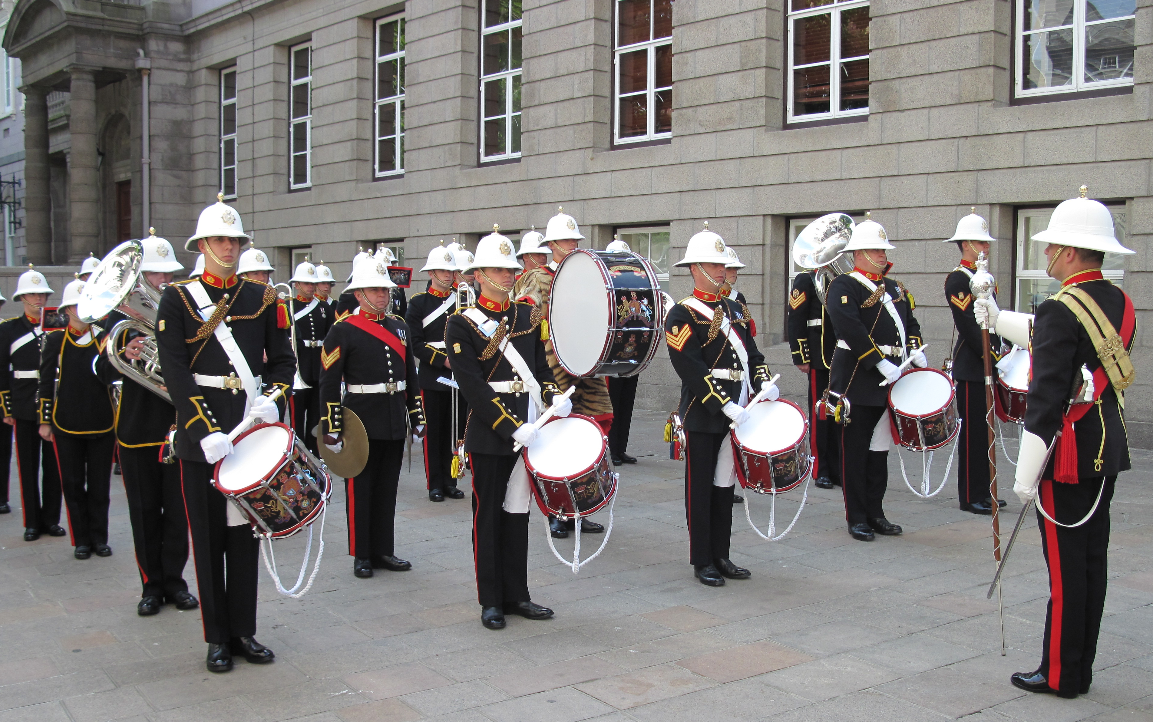 Liberation Day, 9 May 2010, Jersey